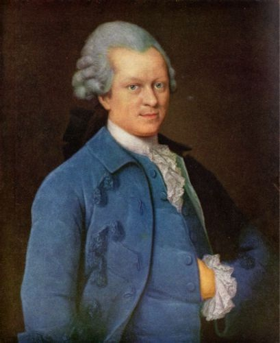 Gotthold Ephraim Lessing